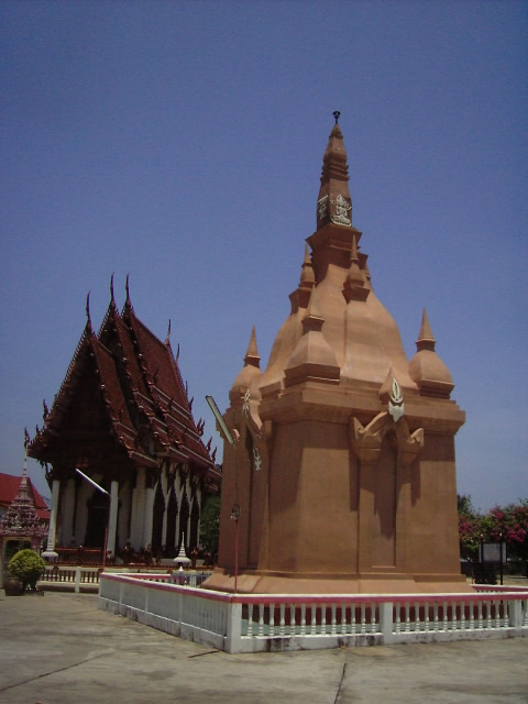 Nine-spired chedi at Wat Tung Sawan Chayapoom, marking campsite of victorious army after defeat of Lord Anouvong of Vientiane.